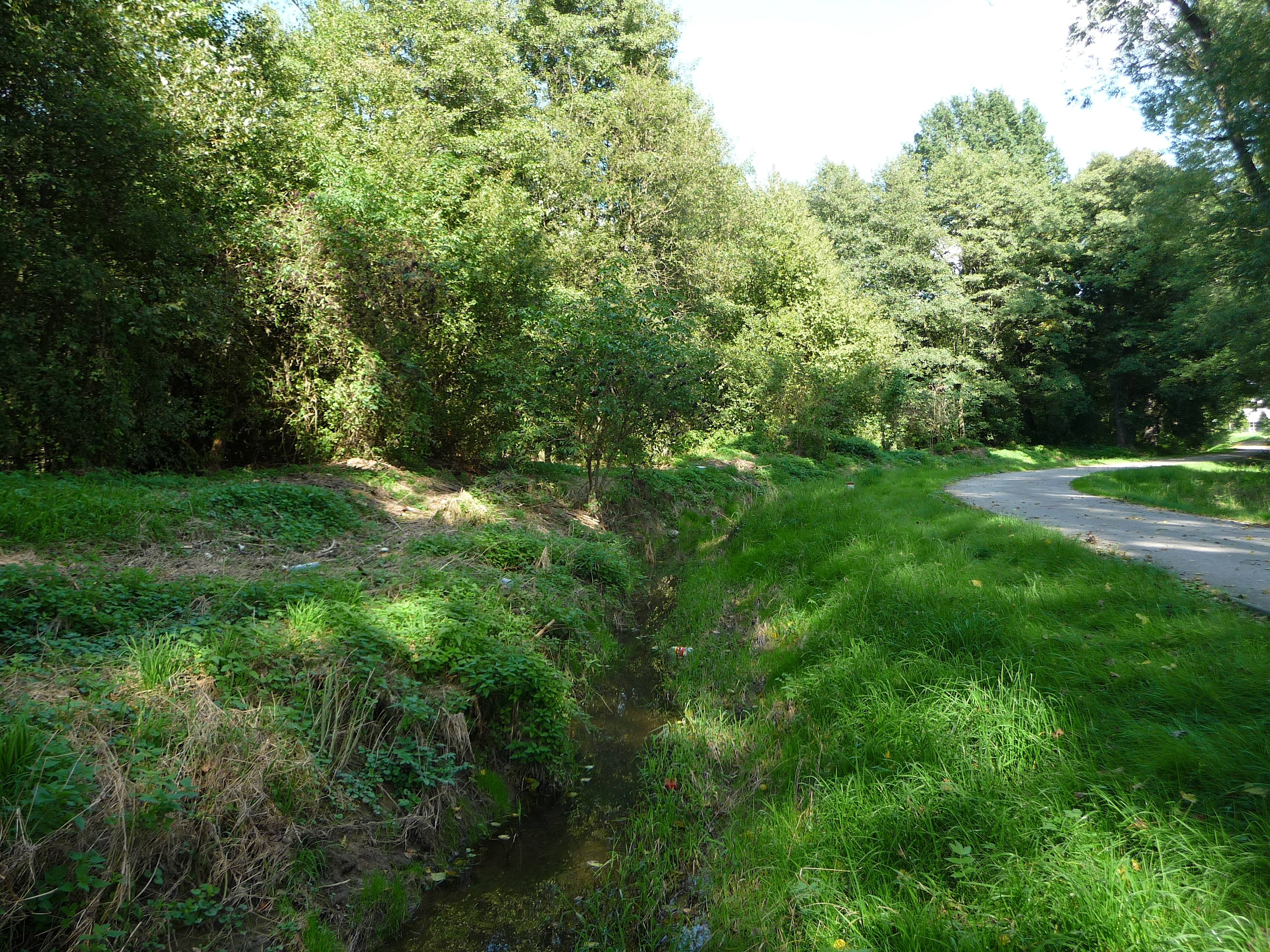 Border stream Oldřichovský potok near the Czech-German-Polish tripoint.